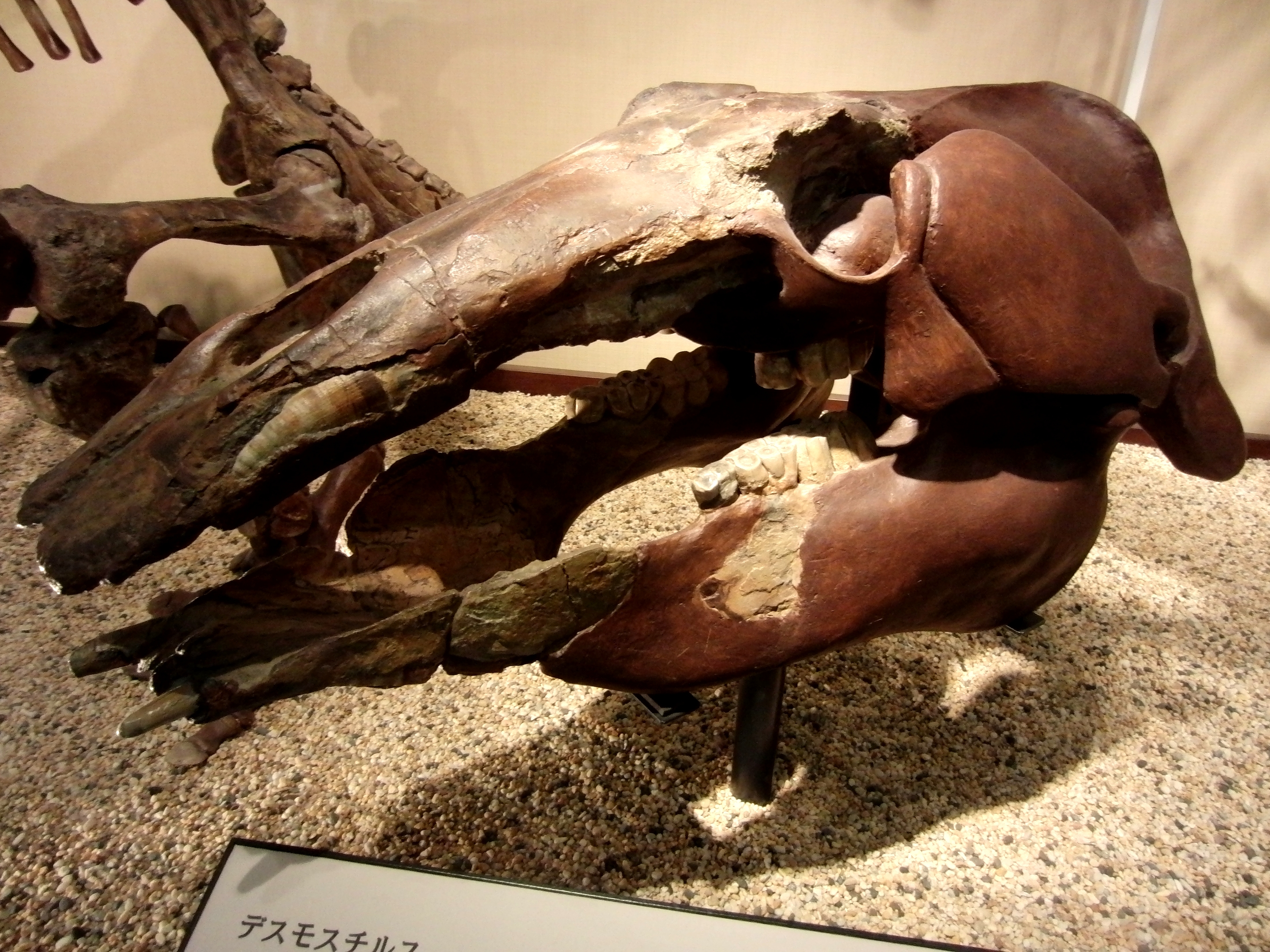 Skull of Desmostylus (Desmostylus japonicus Tokunaga and Iwasaki, 1984). Holotype. Exhibit in the National Museum of Nature and Science, Tokyo, Japan.